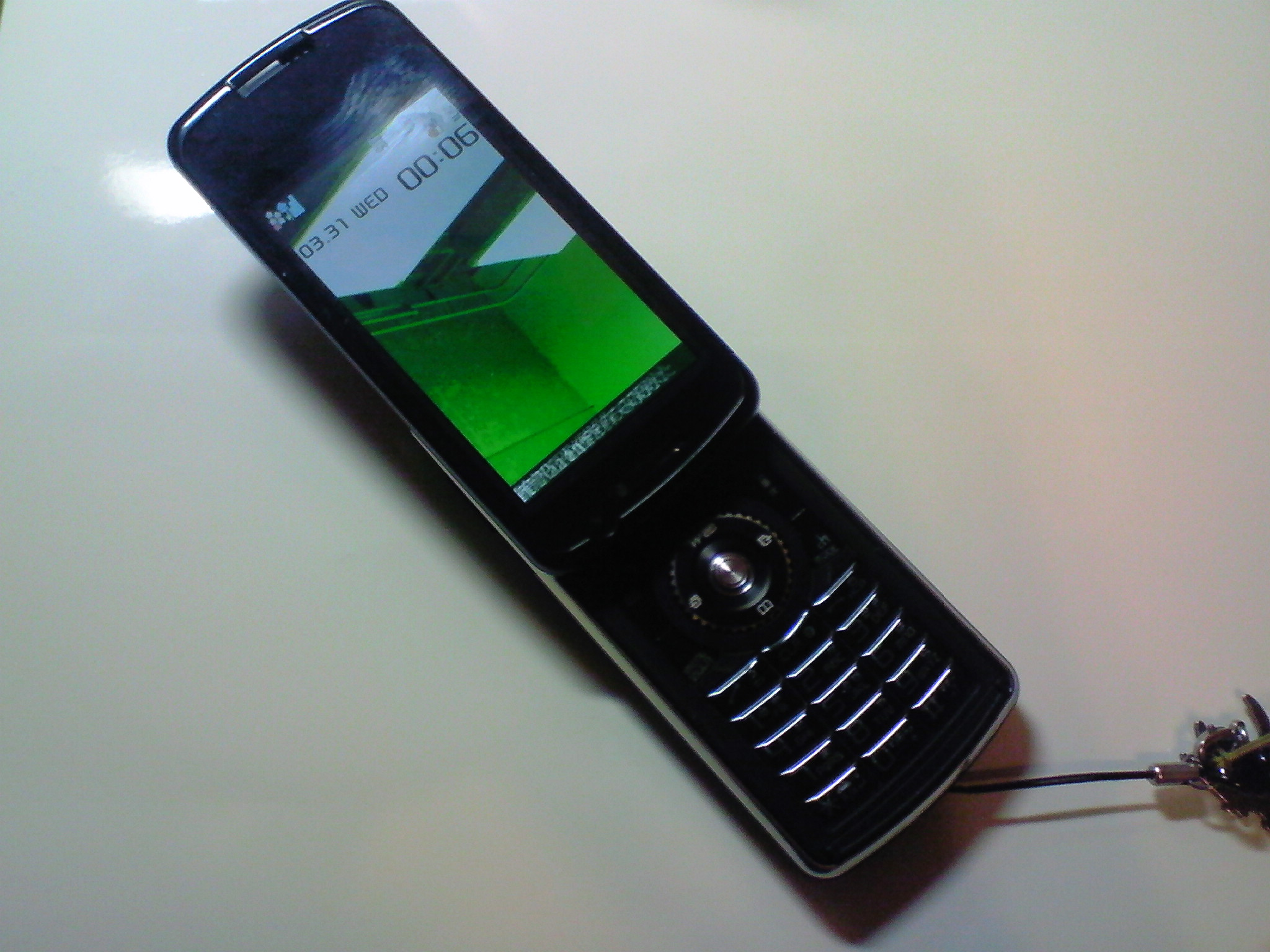 NTTDocomo CellPhone FOMA N-06A Communication Style